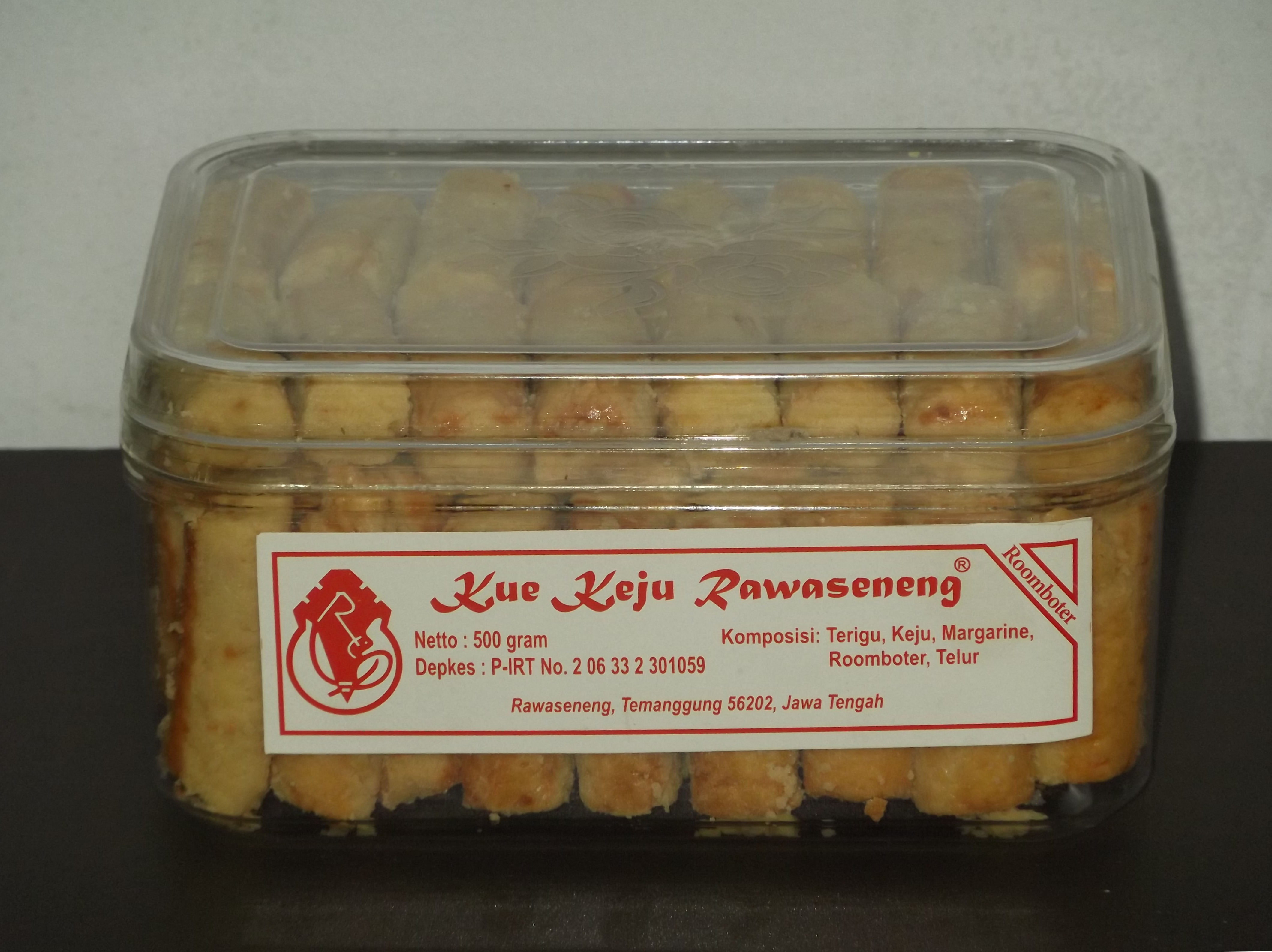 Kastengels ("cheese cookie"), which is sold in the cafeteria of St. Theresia Catholic Church at Jakarta, made by the monks from the Monastery of Saint Mary Rawaseneng in Kandangan, Temanggung.